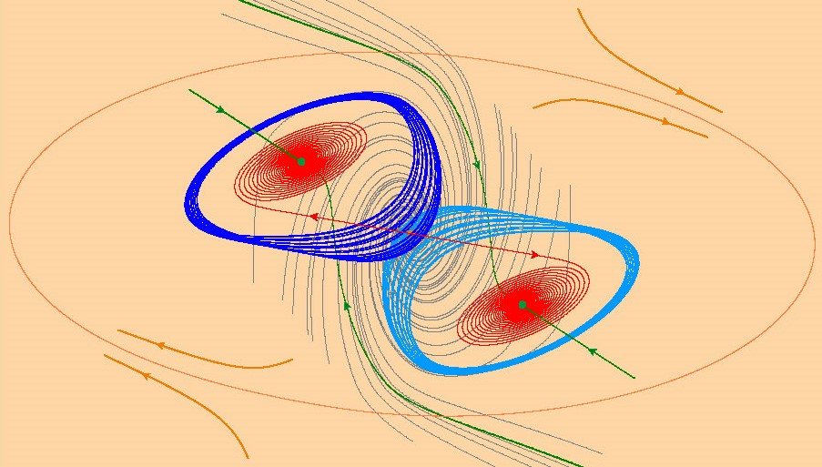 Coexistence of attractors in Chua circuit. Two trivial attractors coexist with one hidden periodic attractor and two hidden chaotic attractors.